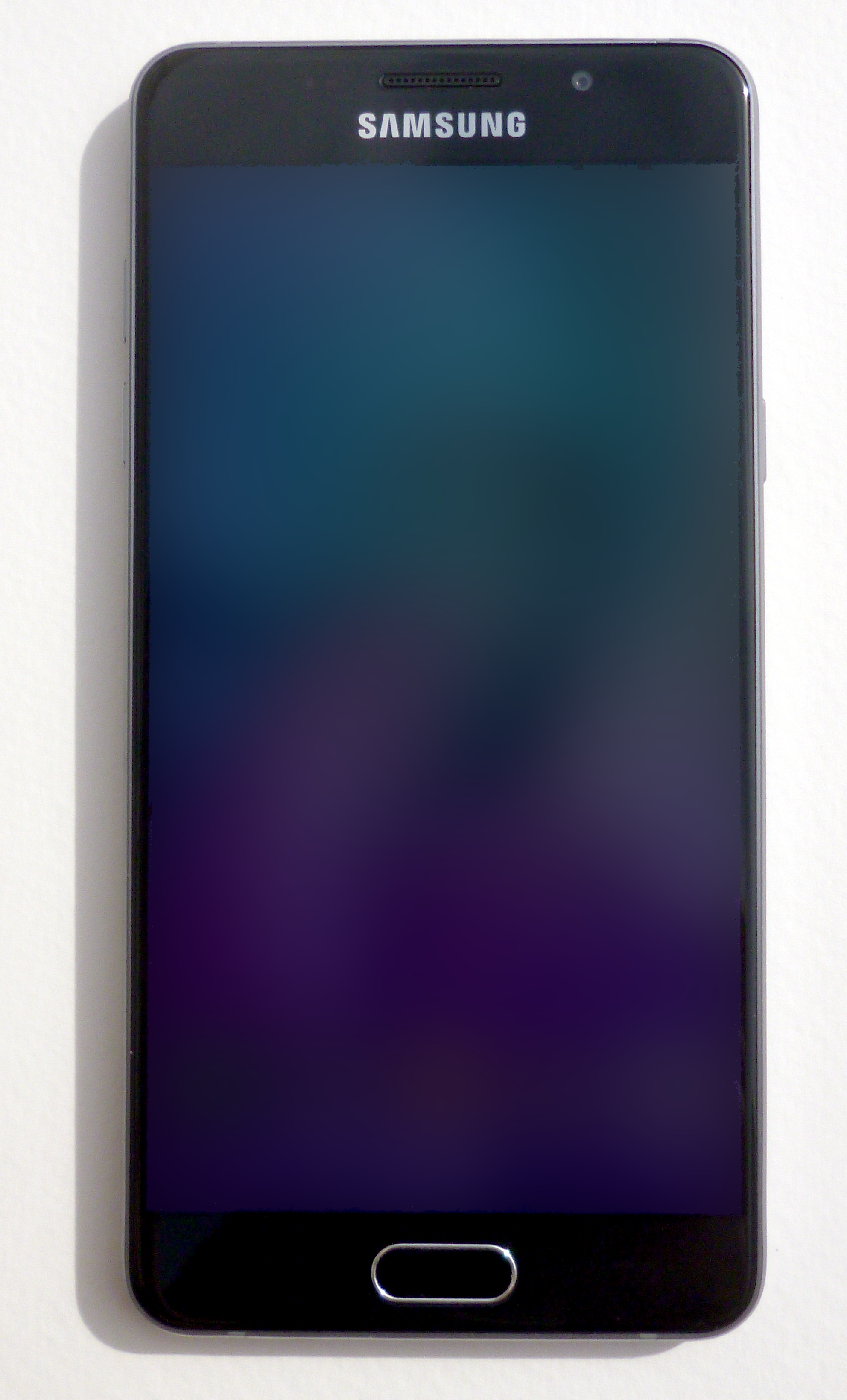 Samsung Galaxy A5, model SM-A510F (UK). Default wallpaper. Camera: Panasonic Lumix DMC-FH5, which you can see reflected in the screen of the phone. Image taken in bright sunlight, cropped and brightened.